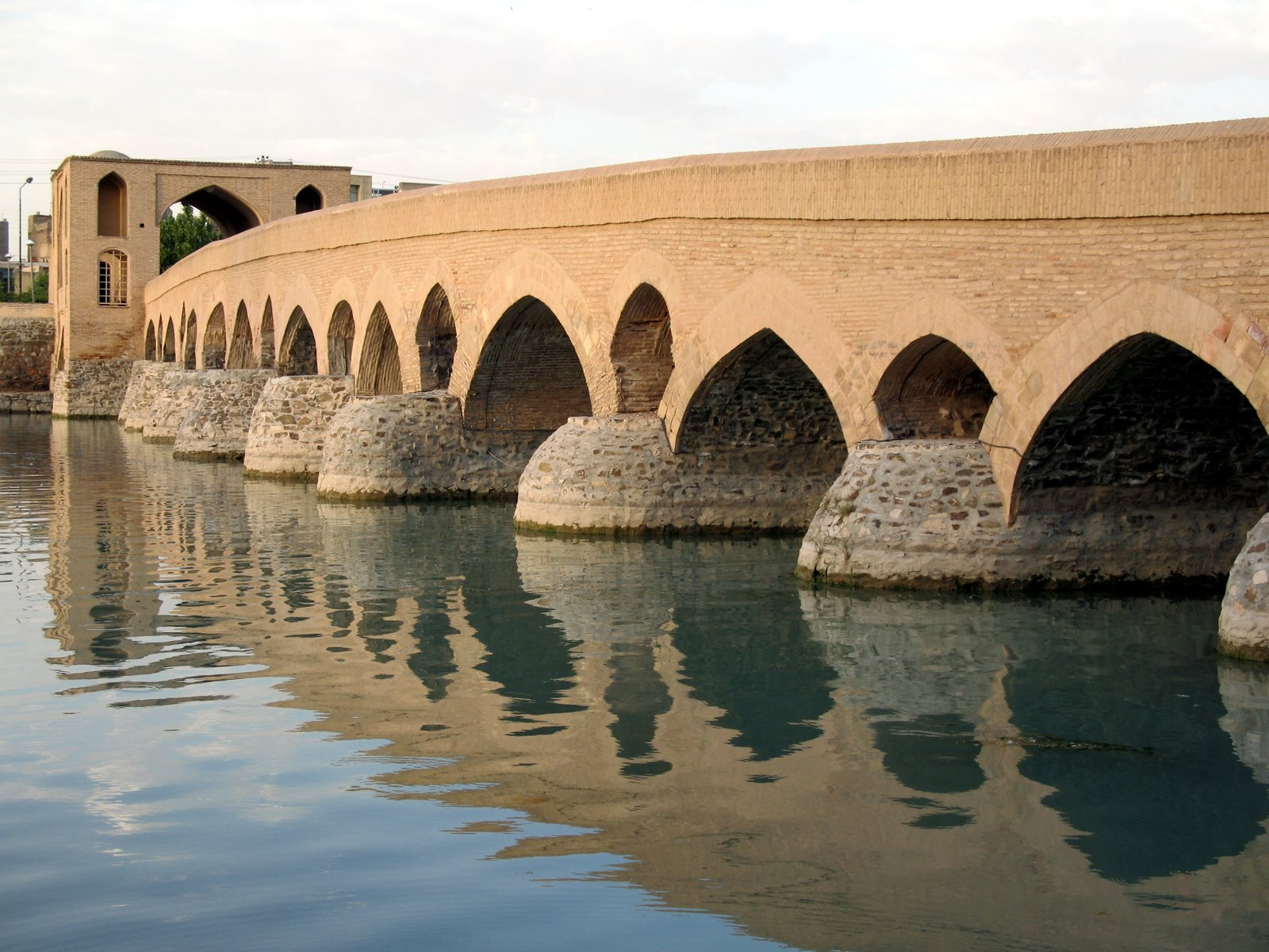 width : 1600 pixels heigth : 1200 pixels bit depth : 24 camera model : canon powershot a630 focal length : 13 mm